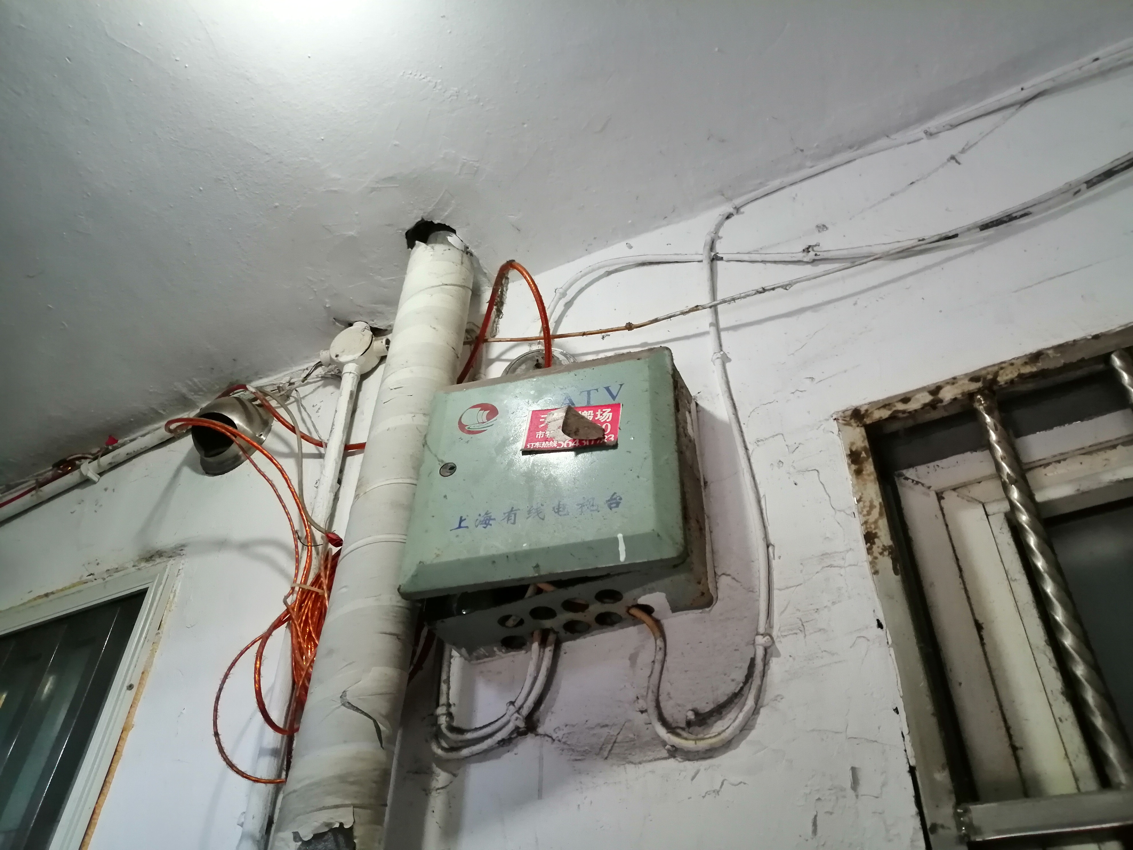 A wire box of former Shanghai Cable Television, now is Shanghai OCN. Taken in Changhai Yicun. 中文（中国大陆）: 原上海有线电视台时期的线箱，现为东方有线。